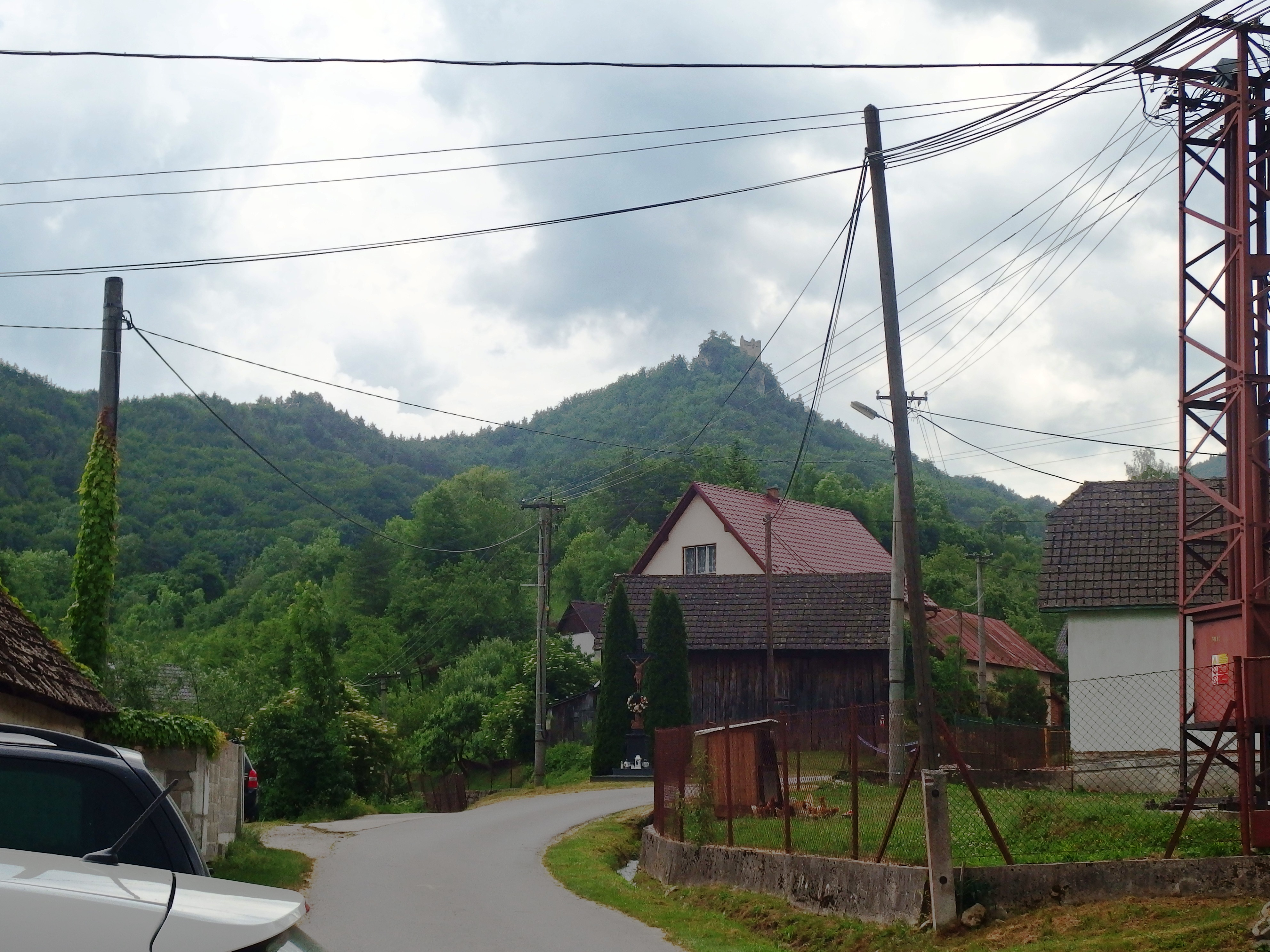 Hričovské Podhradie, Žilina District, Slovakia.